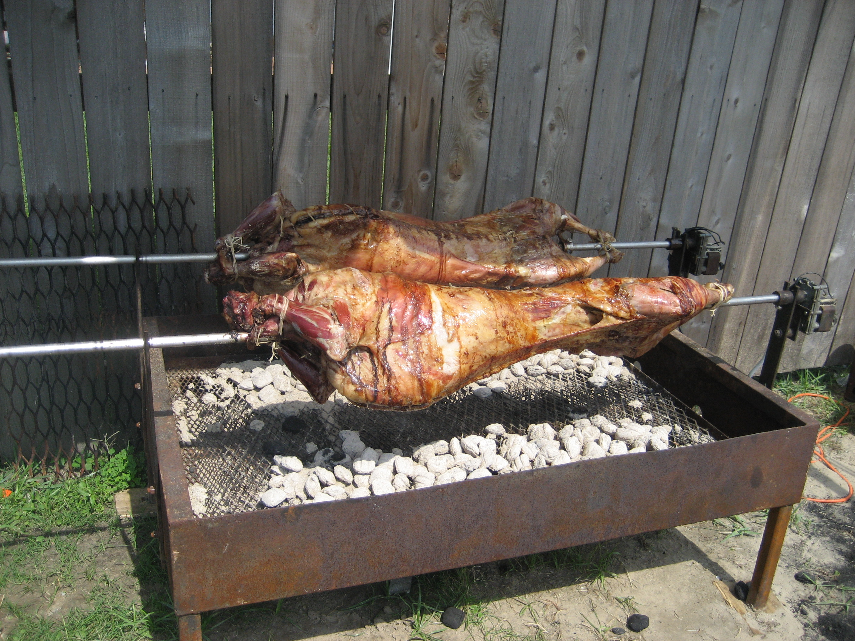 Roasting lamb, Greek Fest, New Orleans